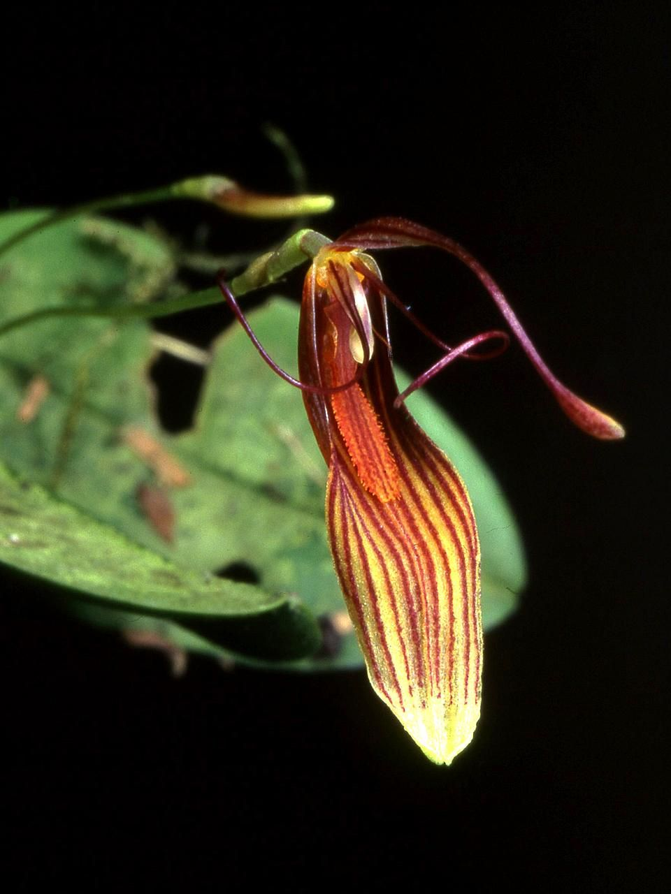 Restrepia wageneri - flower